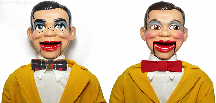 On the right is "Danny", the first version of the bootlegs, and on the left is "Tommy", the last version of the bootlegs, and the very last version of the Jerry Mahoneys made by Juro. From - used with permission from site owner for the page Juro Novelty Company.